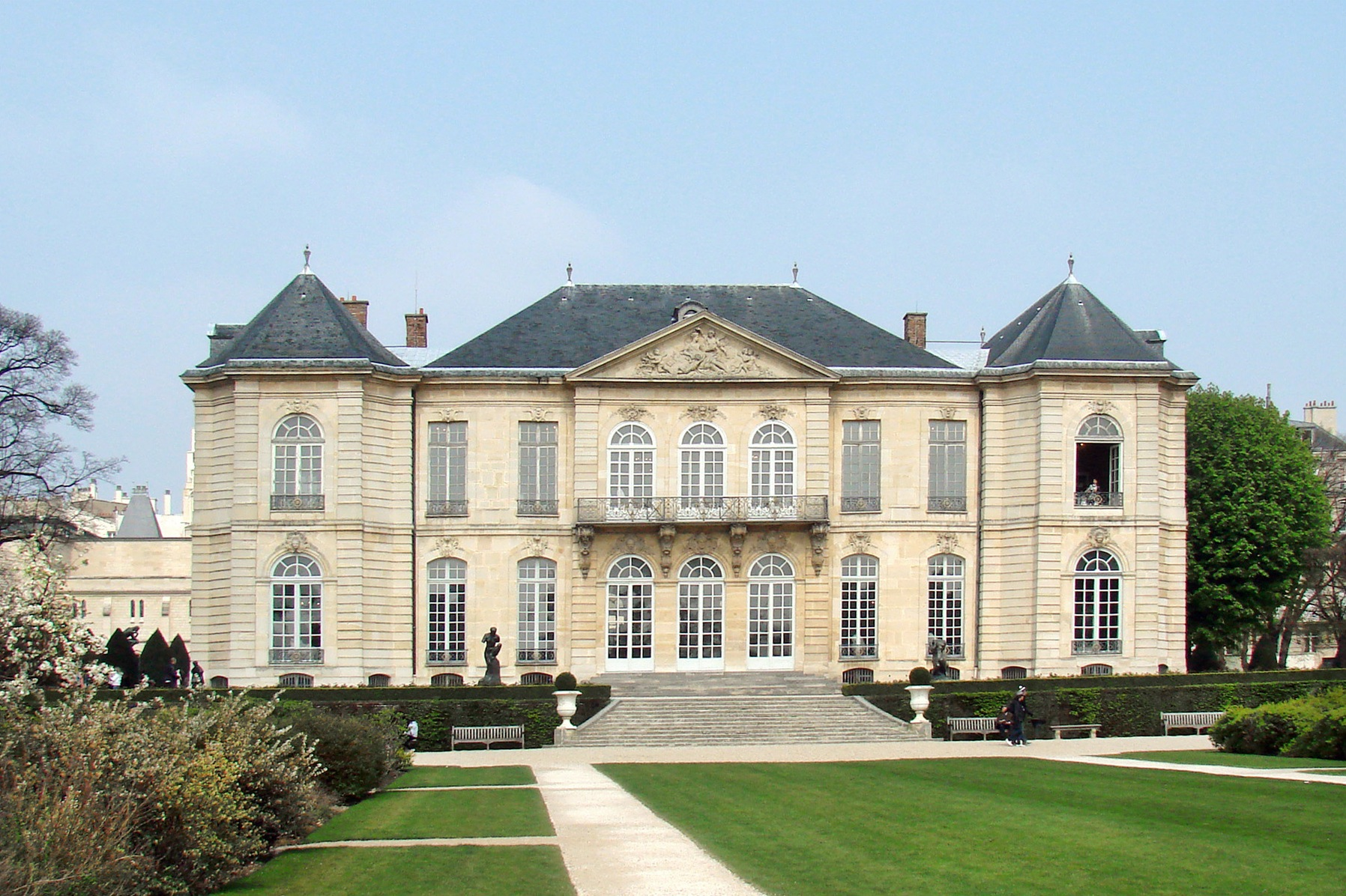 Hôtel Biron